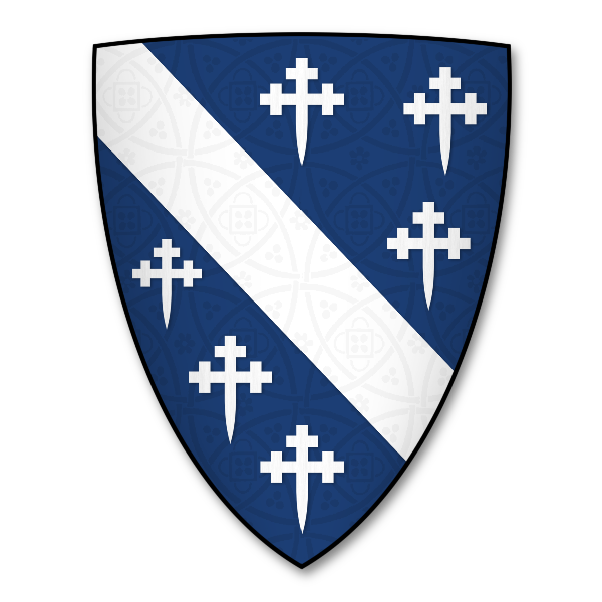 Arms of the Cheyne Clan of Scotland, viz: "Azure a bend between six cross crosslets fitchy argent"